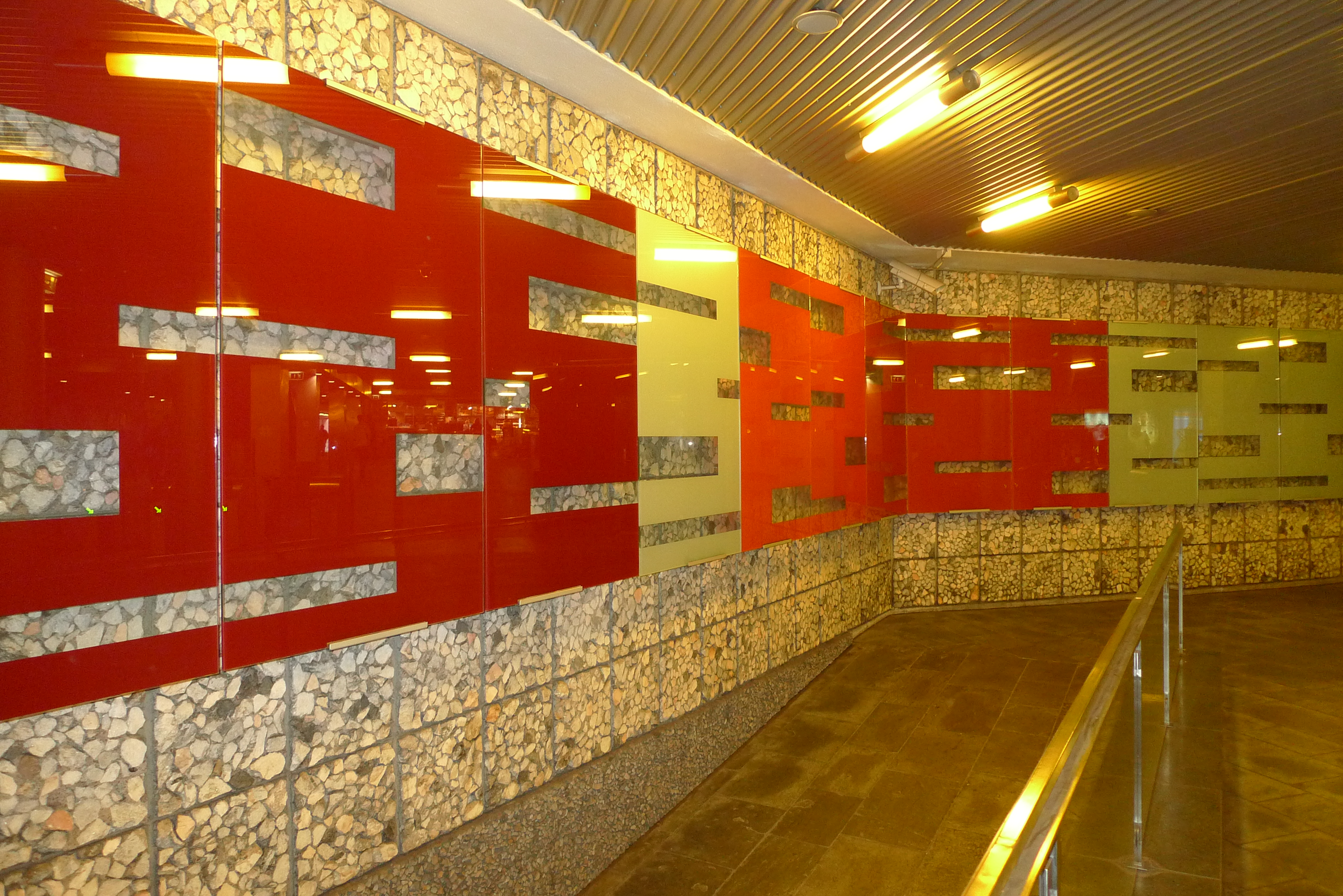 Public art work at Stortinget Subway Station in Oslo